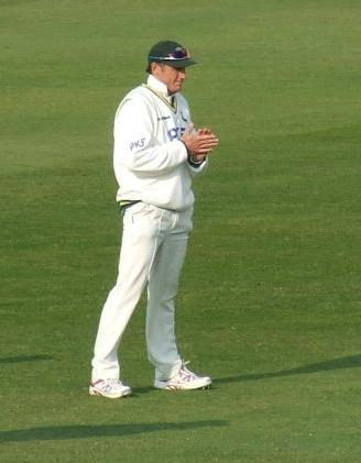 David Hussey in the slips, Nottinghamshire v Leicestershire, 2007